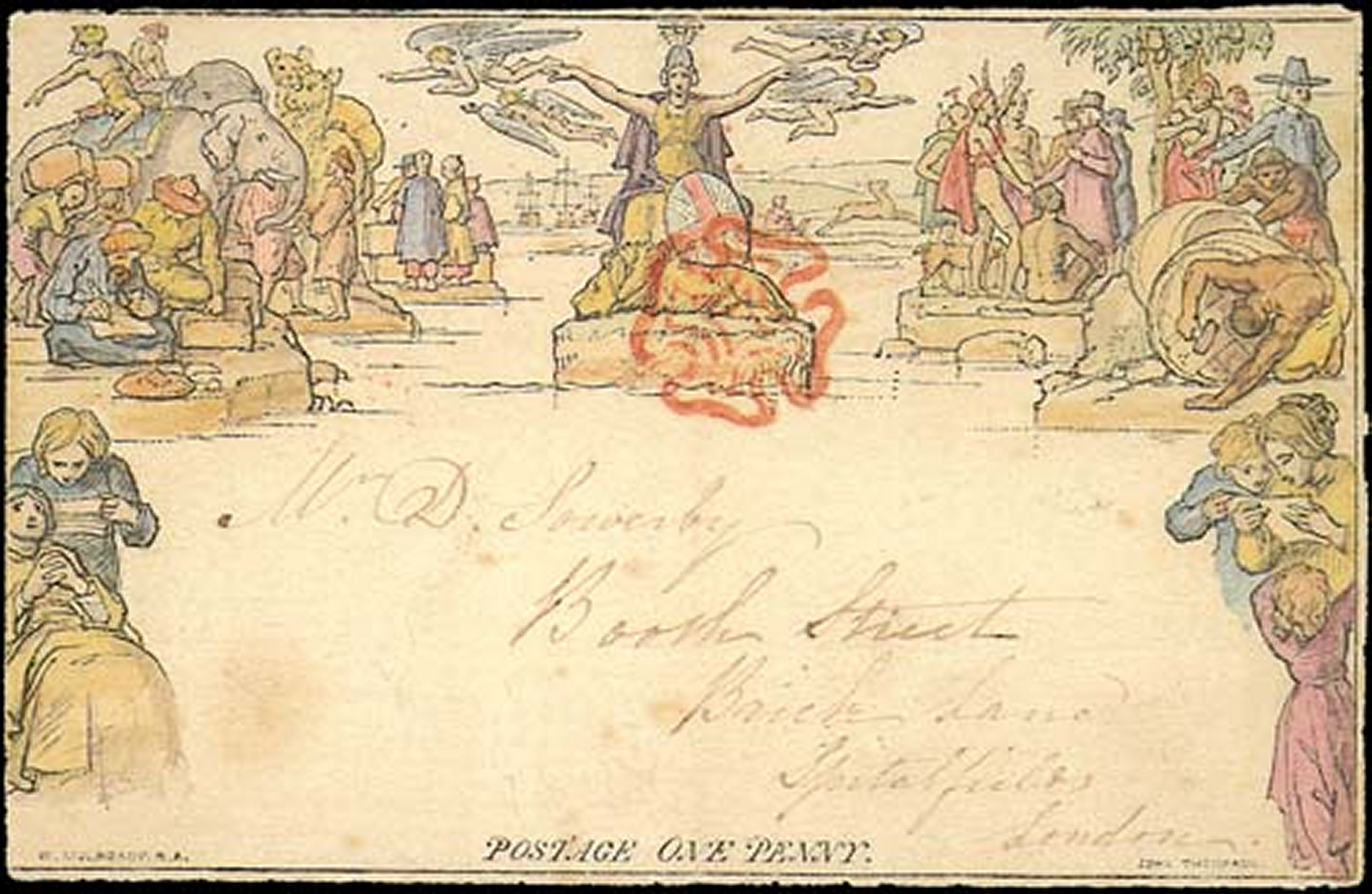 A hand-colored Mulready envelope